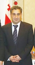 On Nov. 20, 2008, the Millennium Challenge Corporation and Georgia signed an amendment to the $295 million compact with Georgia that grants up to an additional $100 million in U.S. Government development assistance. The additional funding will complement activities currently funded by MCC, including the rehabilitation of Georgia’s road network, infrastructure development and energy activities.